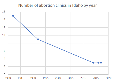 Number of abortion clinics in Idaho by year. Created using data linked on .